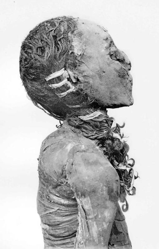 Mummy of Neskhons, Chantress of Amun during the 21st dynasty, found in DB320.